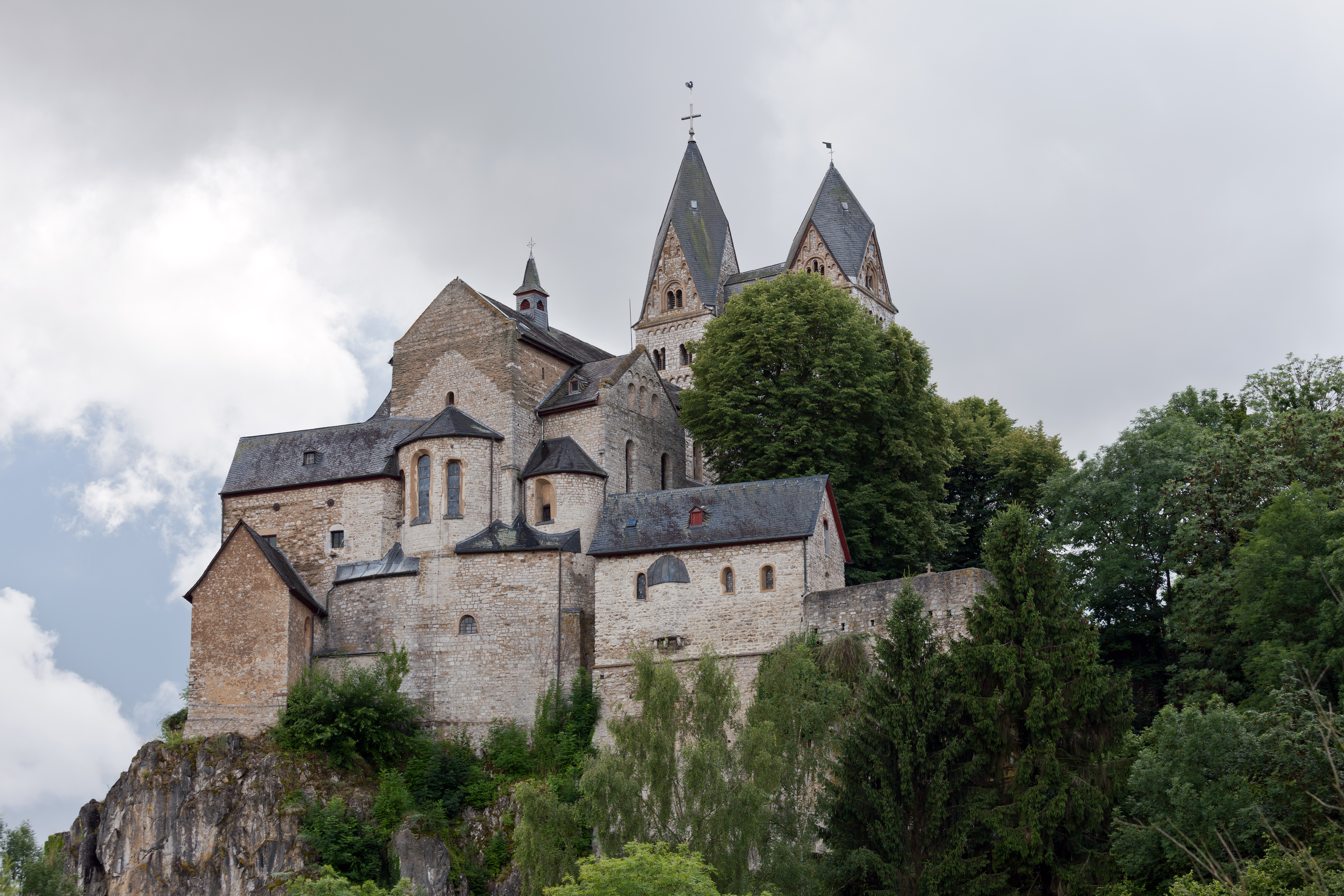 Limburg an der Lahn-Dietkirchen: St. Lubentius, close up as seen from the northeast